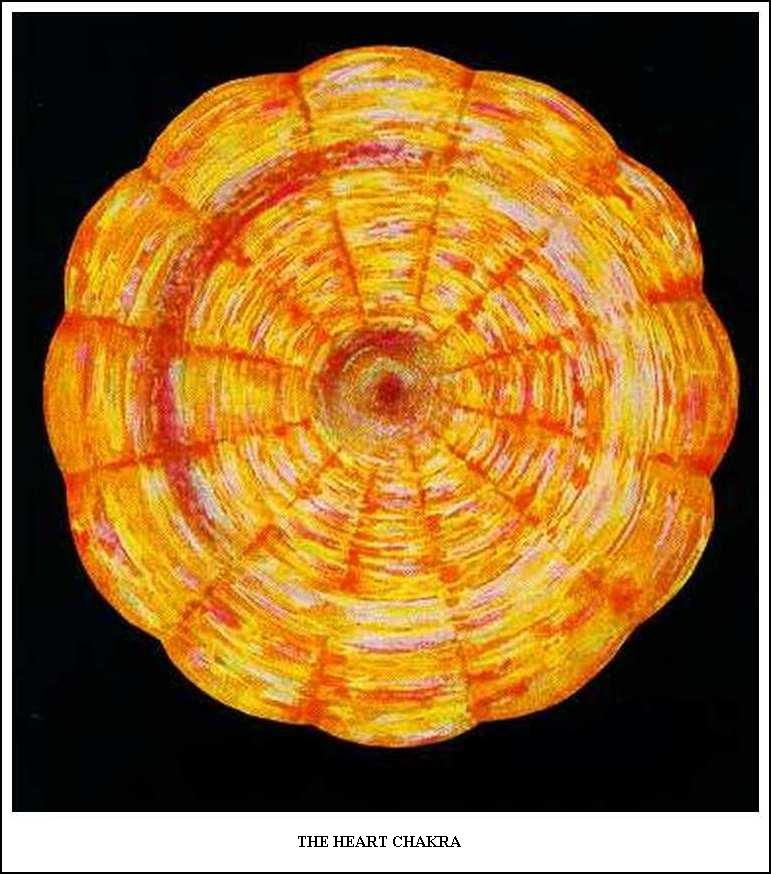 The heart chakra